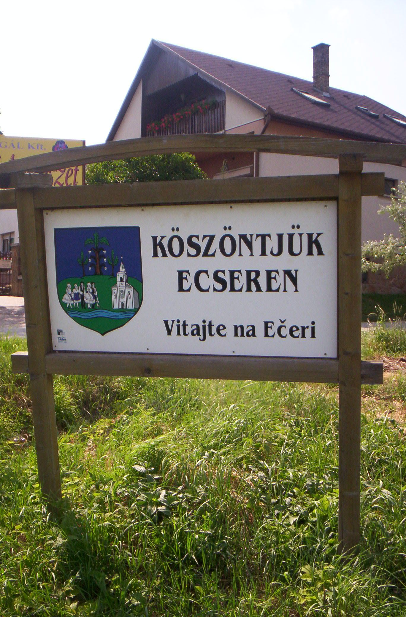 Bilingual table of the village of Ecser.